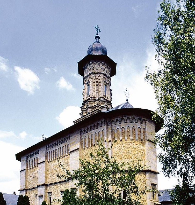 View of the Dragomirna monastery during the day. 01